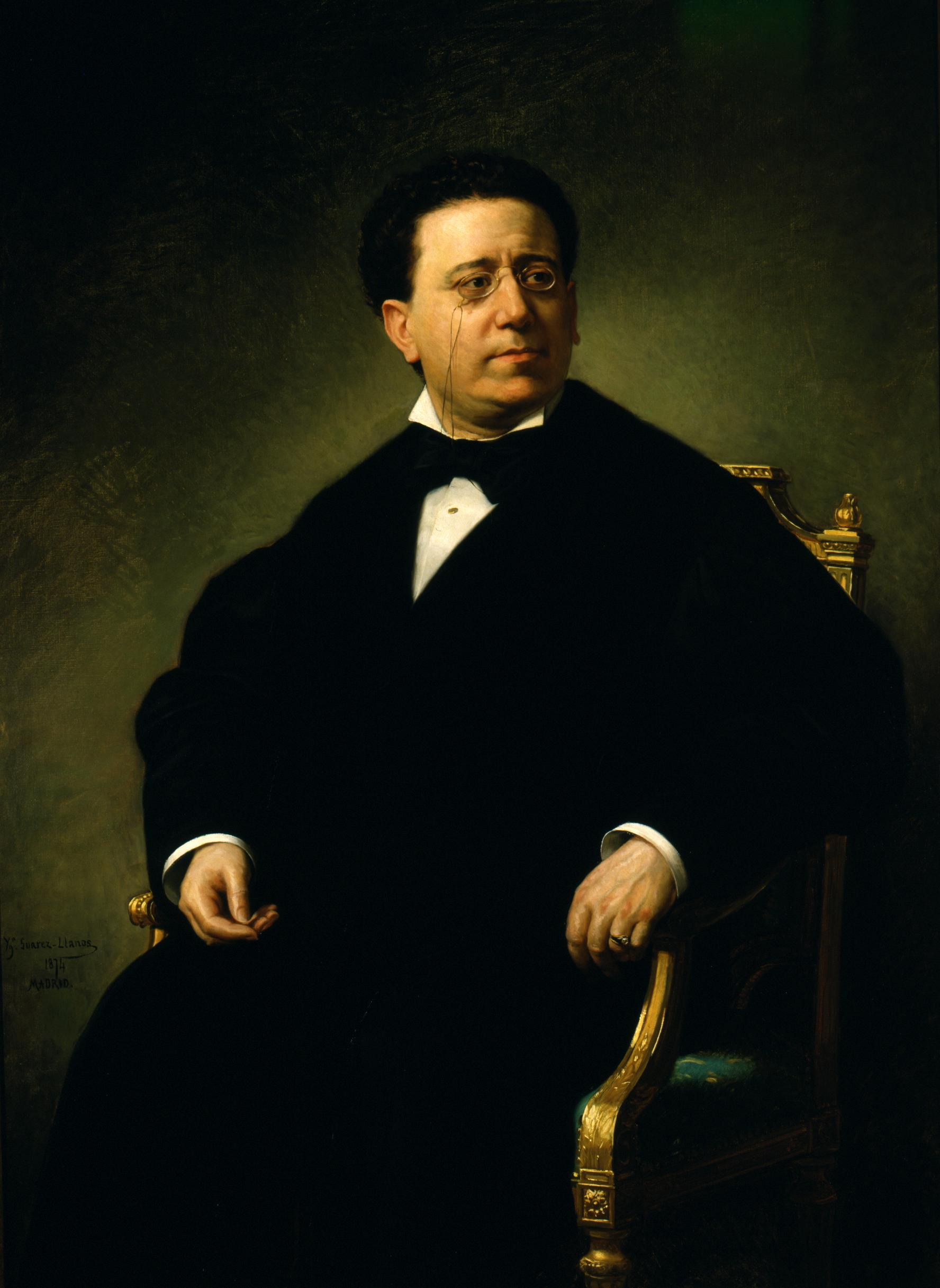 Portrait of Cristino Martos y Balbí